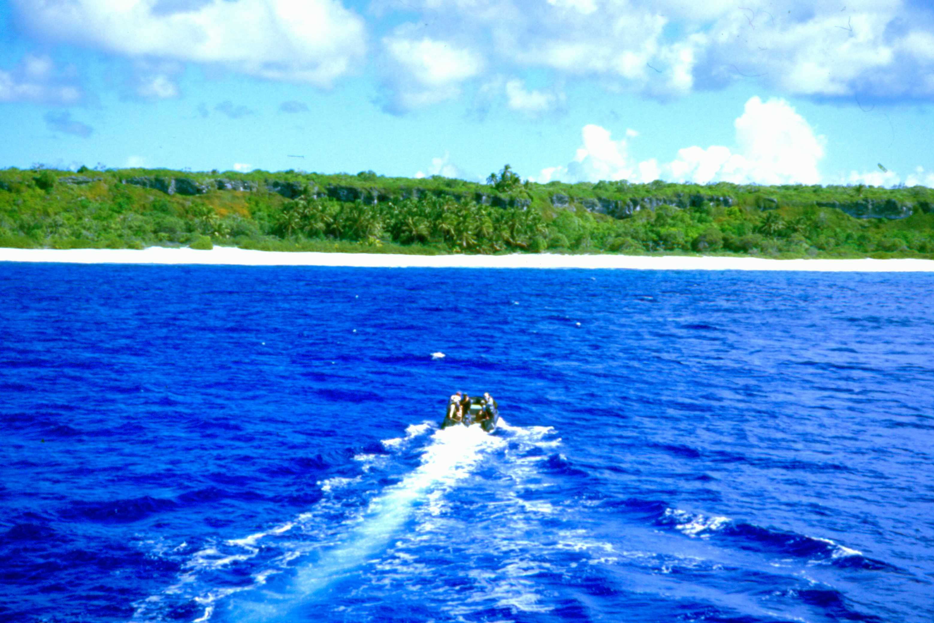 Approaching the west coast of Henderson Island, Pitcairn Islands, Pacific Ocean